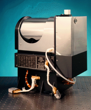 In response to a NASA request for instrument proposals, Dr. Phil Christensen developed the idea of TES. His experience as a graduate student at UCLA exposed him to Mars exploration. It was there that he worked with data from the Infrared Thermal Mapper. The IRTM was a more primitive version of TES that flew on the two Viking orbiters in 1976. In 1983, when NASA called for instruments to fly on board the planned Mars Observer spacecraft, Phil answered with the TES concept. He assembled many of the same IRTM engineers from the Hughes Santa Barbara Research Center (SBRC), to help design and build TES. A team of scientists also was recruited by Phil to help guide the process. One of these scientists, Dr. Hugh Kieffer, was the principal investigator for the IRTM instrument.